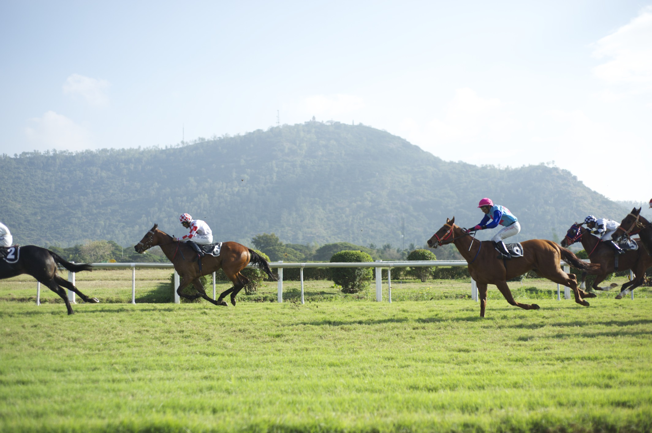 A race in session at the Mysore Turf Club with the Chamundi Hills in the background.